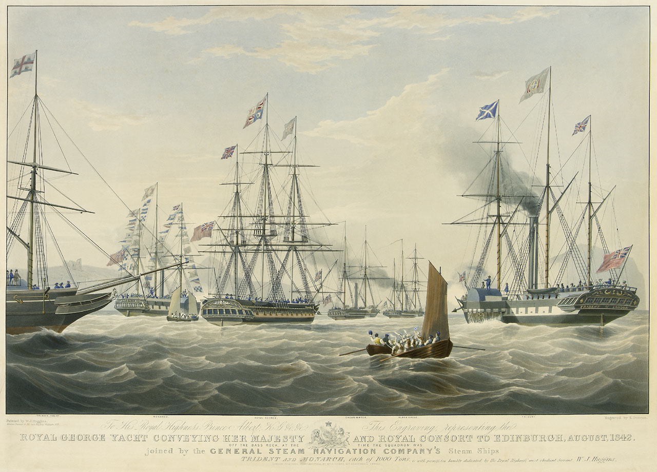 To... Prince Albert... This Engraving representing the Royal George Yacht conveying her Majesty and Royal Consort to Edinburgh, August, 1842 Off the Bass Rock... joined by General Steam Navigation... Ships Trident and Monarch Print entitled 'To... Prince Albert... This Engraving representing the Royal George Yacht conveying her Majesty and Royal Consort to Edinburgh, August, 1842 Off the Bass Rock... joined by General Steam Navigation... Ships Trident and Monarch'. The print is hand coloured. See PAG8904, another copy, for further detail. To... Prince Albert... This Engraving representing the Royal George Yacht conveying her Majesty and Royal Consort to Edinburgh, August, 1842 Off the Bass Rock... joined by General Steam Navigation...